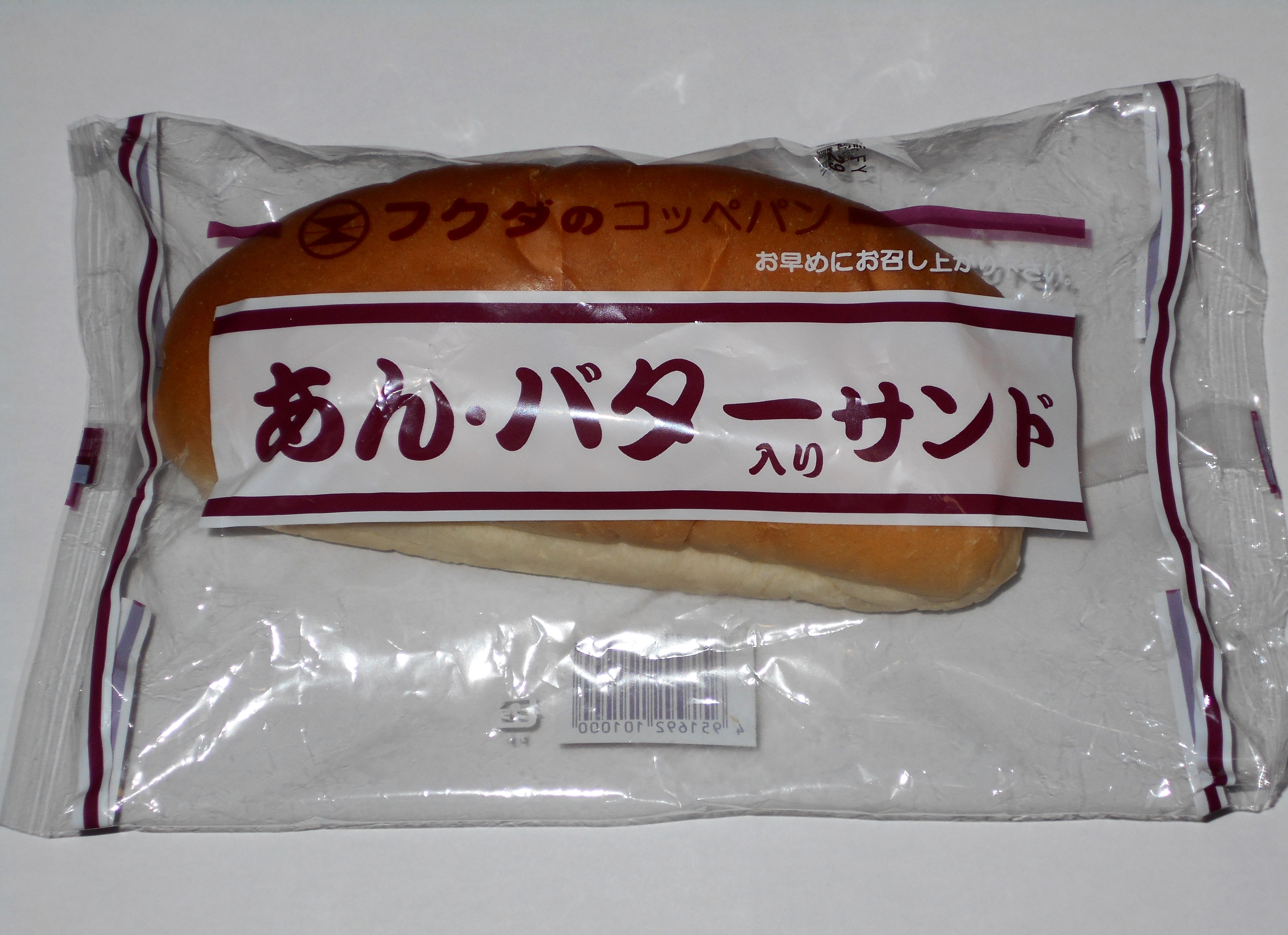 Sweet pastry of Fukuda Baking. "An-butter"（Sweet bean paste and butter taste）